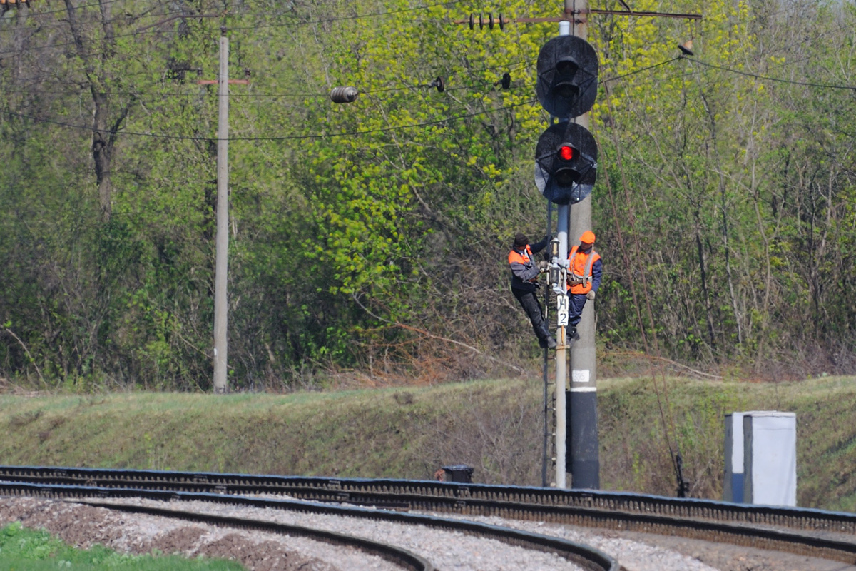 A Russian-type exit signal undergoing maintenance